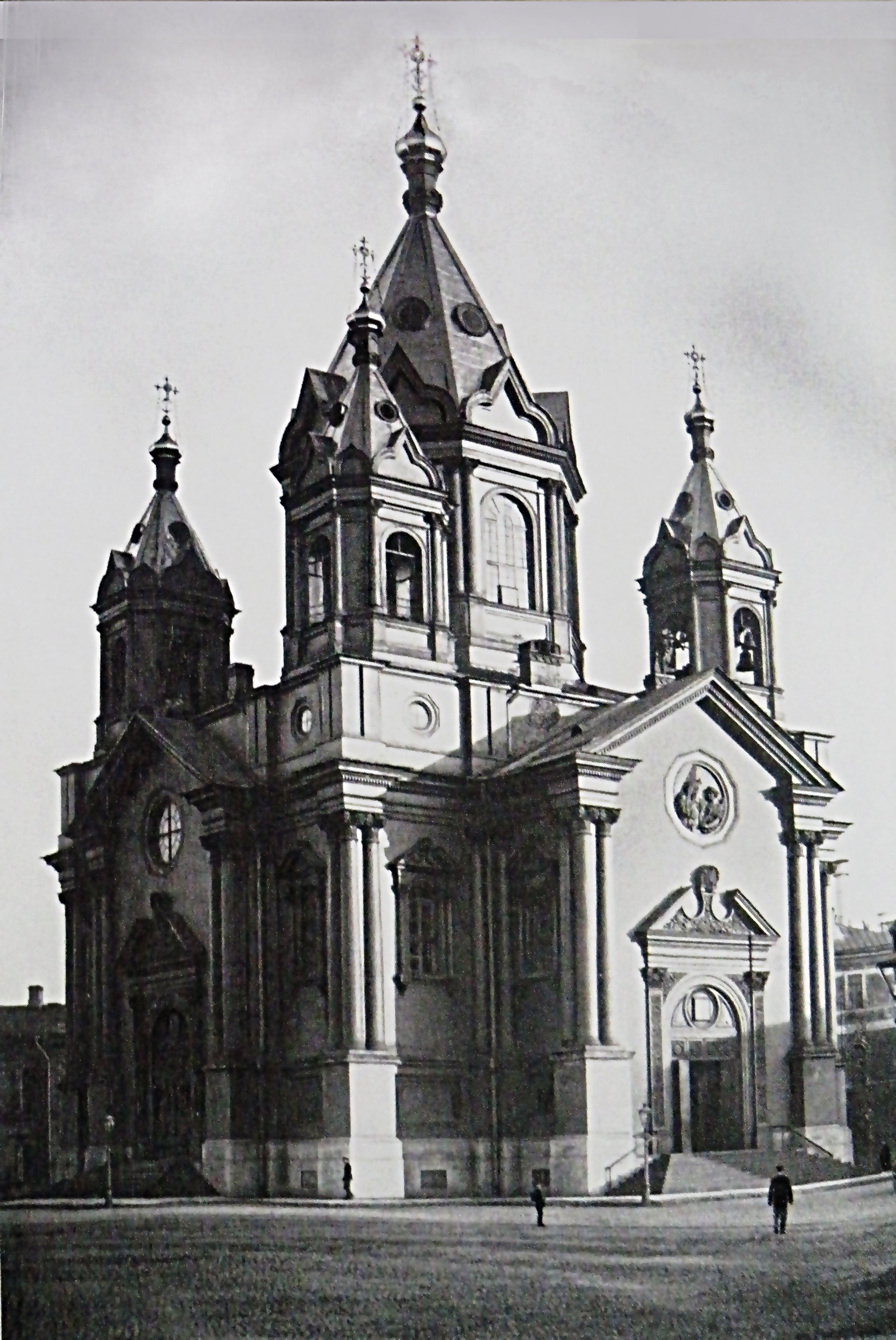 Annunciation church at Horse Guards caserne in Saint Petersburg. Exploded by Bolsheviks